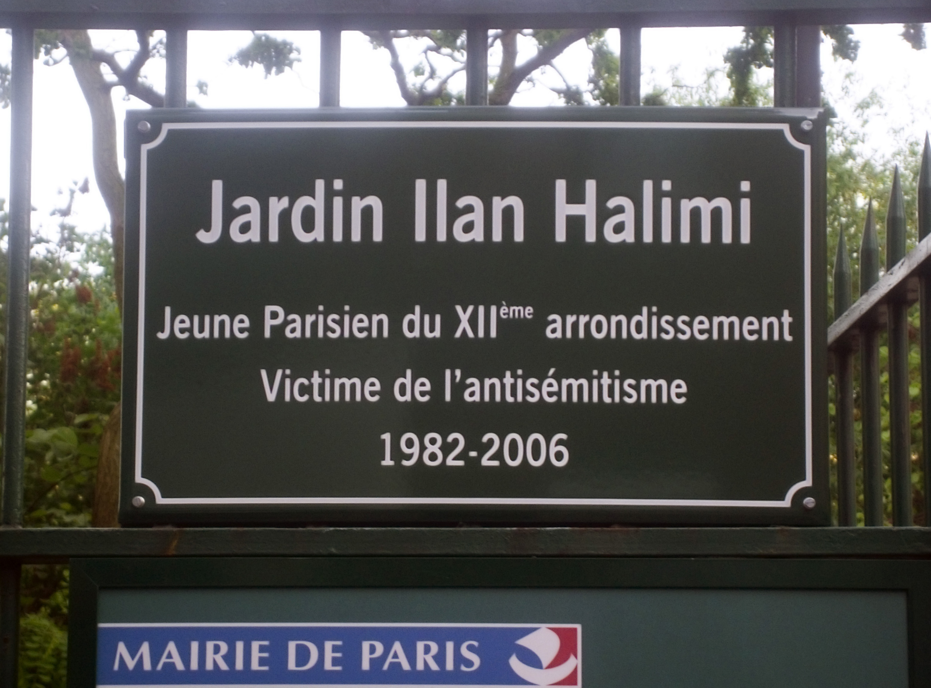 Plaque of the Jardin Ilan-Halimi, in the 12th arrondissement of Paris. The plaque is affixed to the railings, at the entry on the 54 rue de Fécamp, and reads: "Jardin Ilan Halimi / Jeune Parisien du XIIe arrondissement / Victime de l'antisémitisme / 1982-2006" (Jardin Ilan Halimi / Young Parisien of the 12th arrondissement / Victim of antisemitism / 1982/2006)